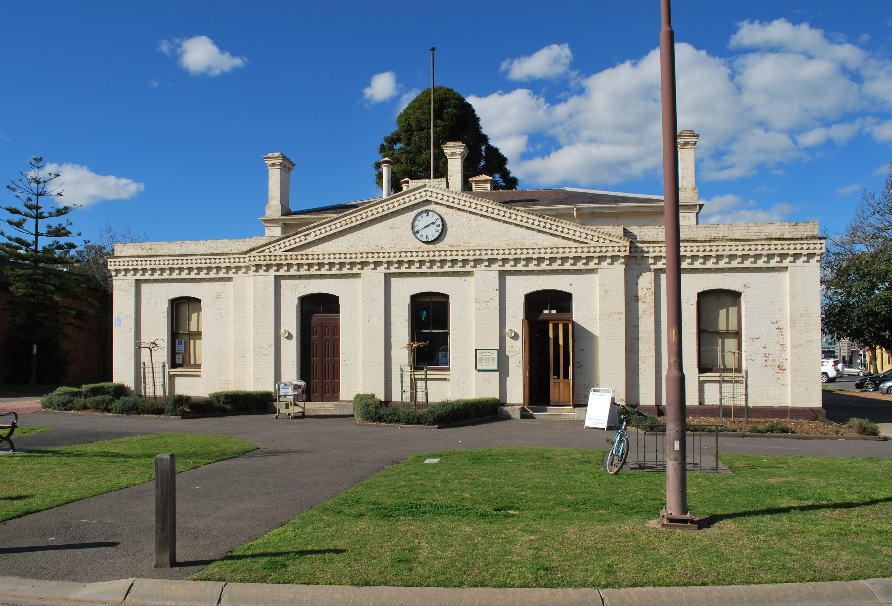 The former Town Hall, now a library, at Echuca, Victoria